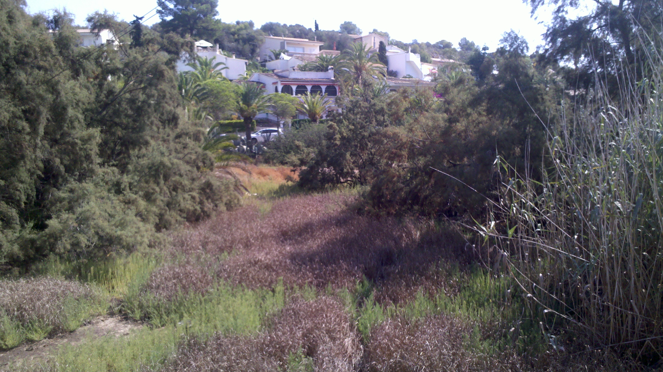 Cala Romantica (Estany d'en Mas) backside